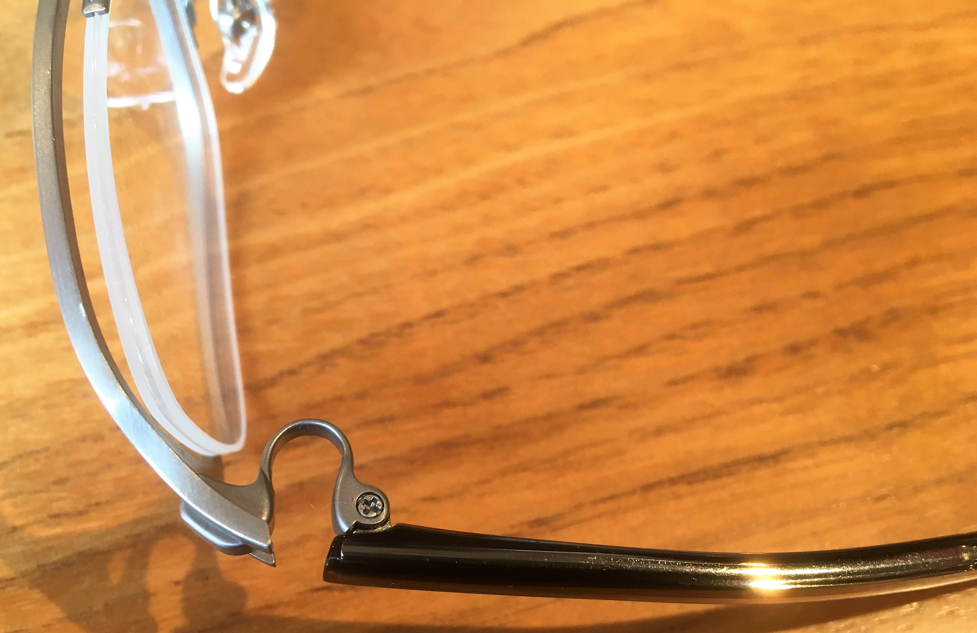 999.9_(Four Nines Co.Ltd)_titanium_glass_flame